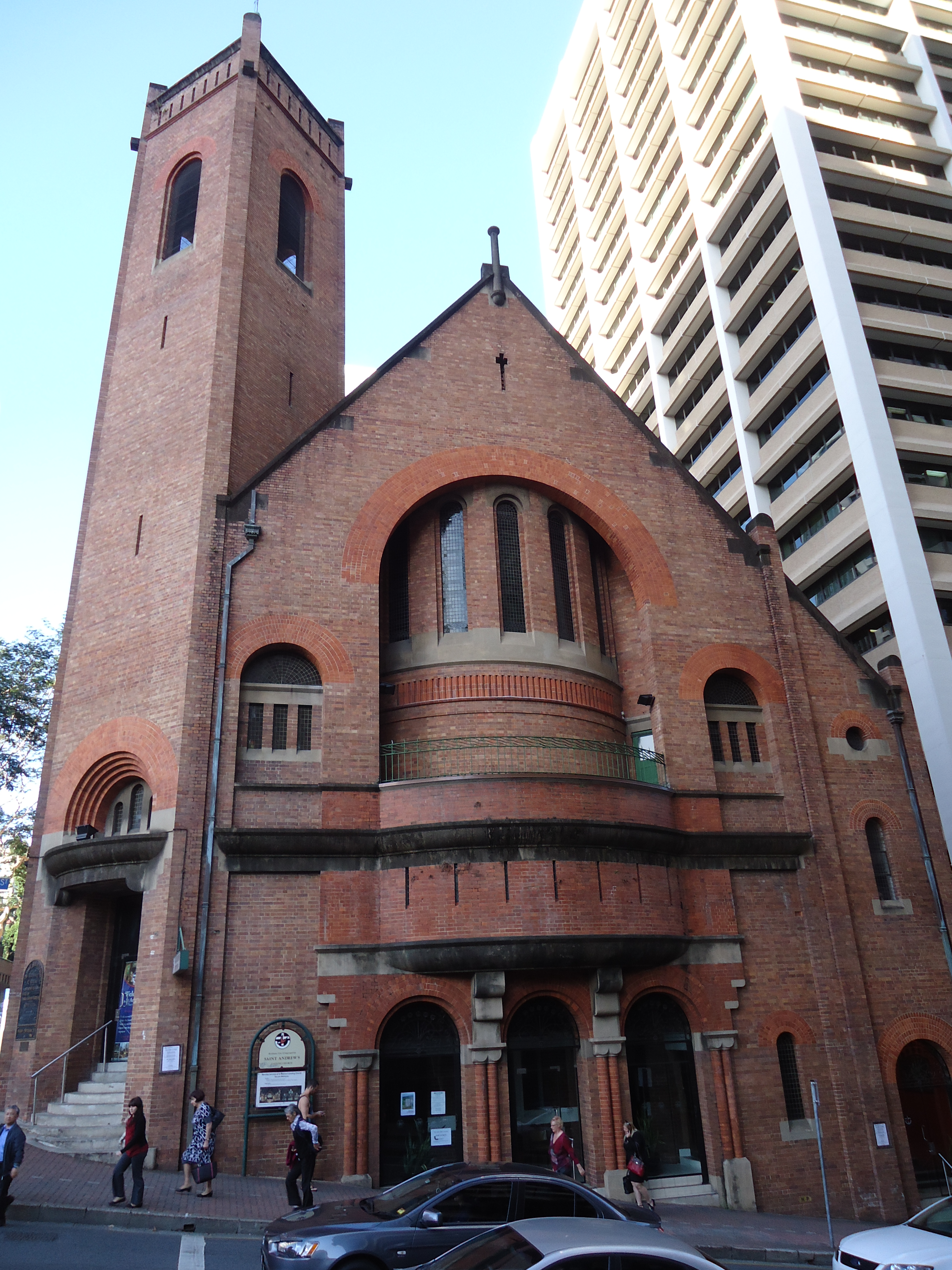 Saint Andrew's Uniting Church, Brisbane by G.D Payne (1905)